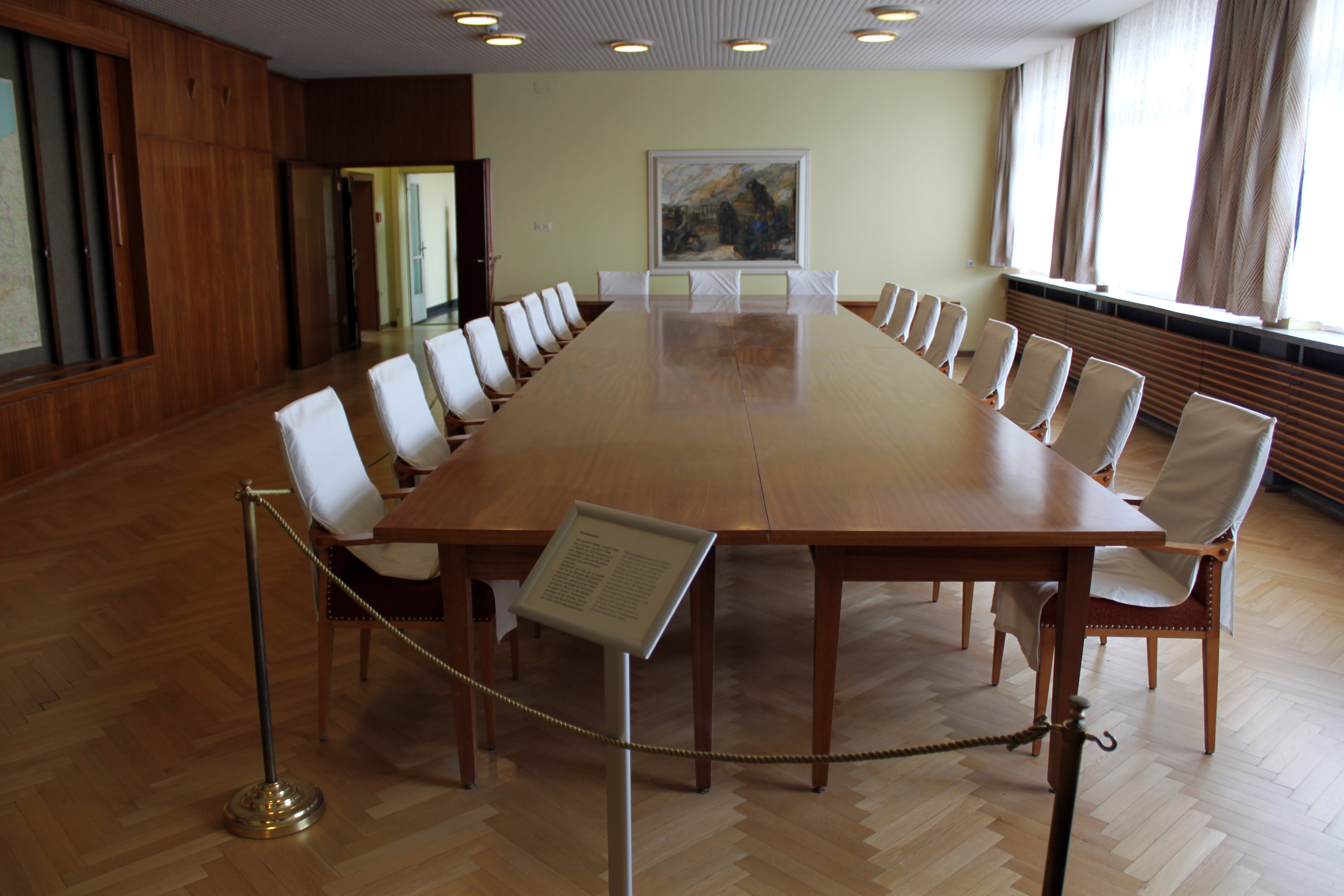 Stasi Museum, Berlin: Conference Room, Ministry of State Security